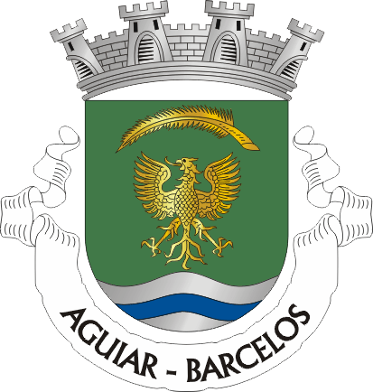 Crest of Aguiar, a parish in the municipality of Barcelos (Portugal)